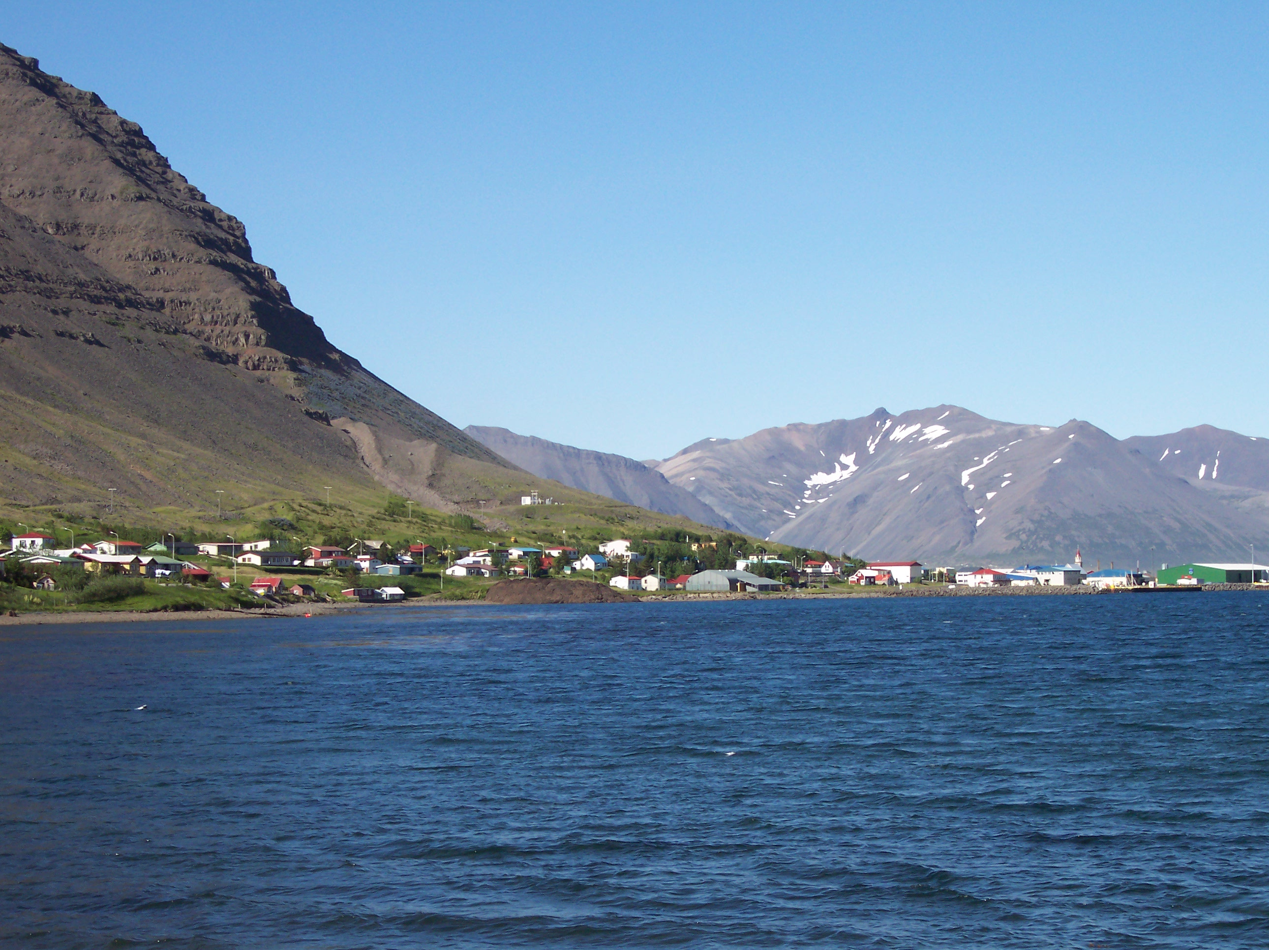 Bíldudalur, seen from the south